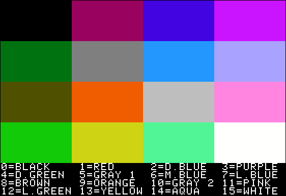 A screen capture of an Apple II basic program that displays the low-resolution mode color palette.